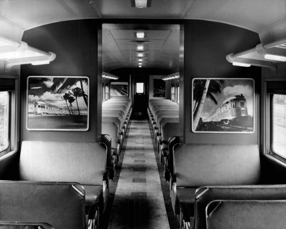 Photo of the interior of the prototype Budd RDC-1 rail diesel car.